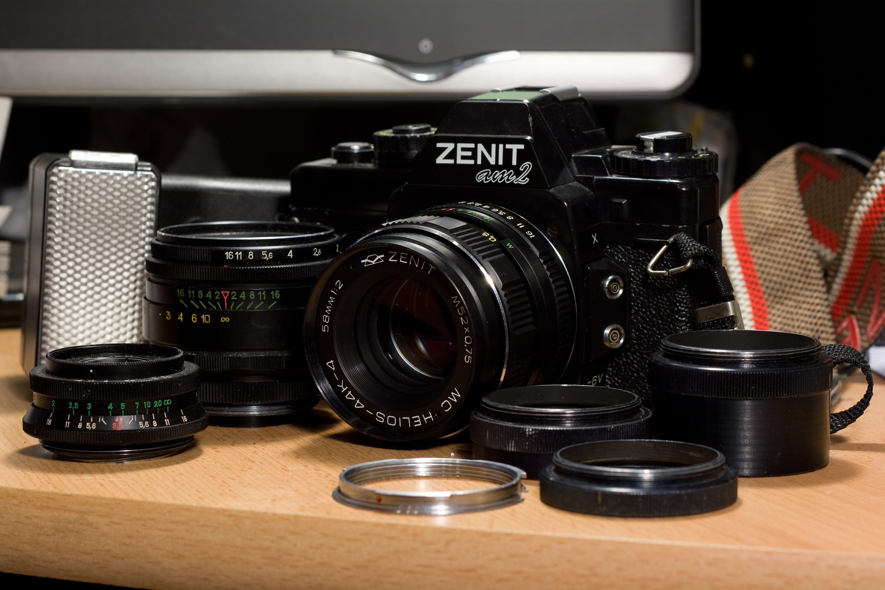 Zenit am2 film camera and accessorries